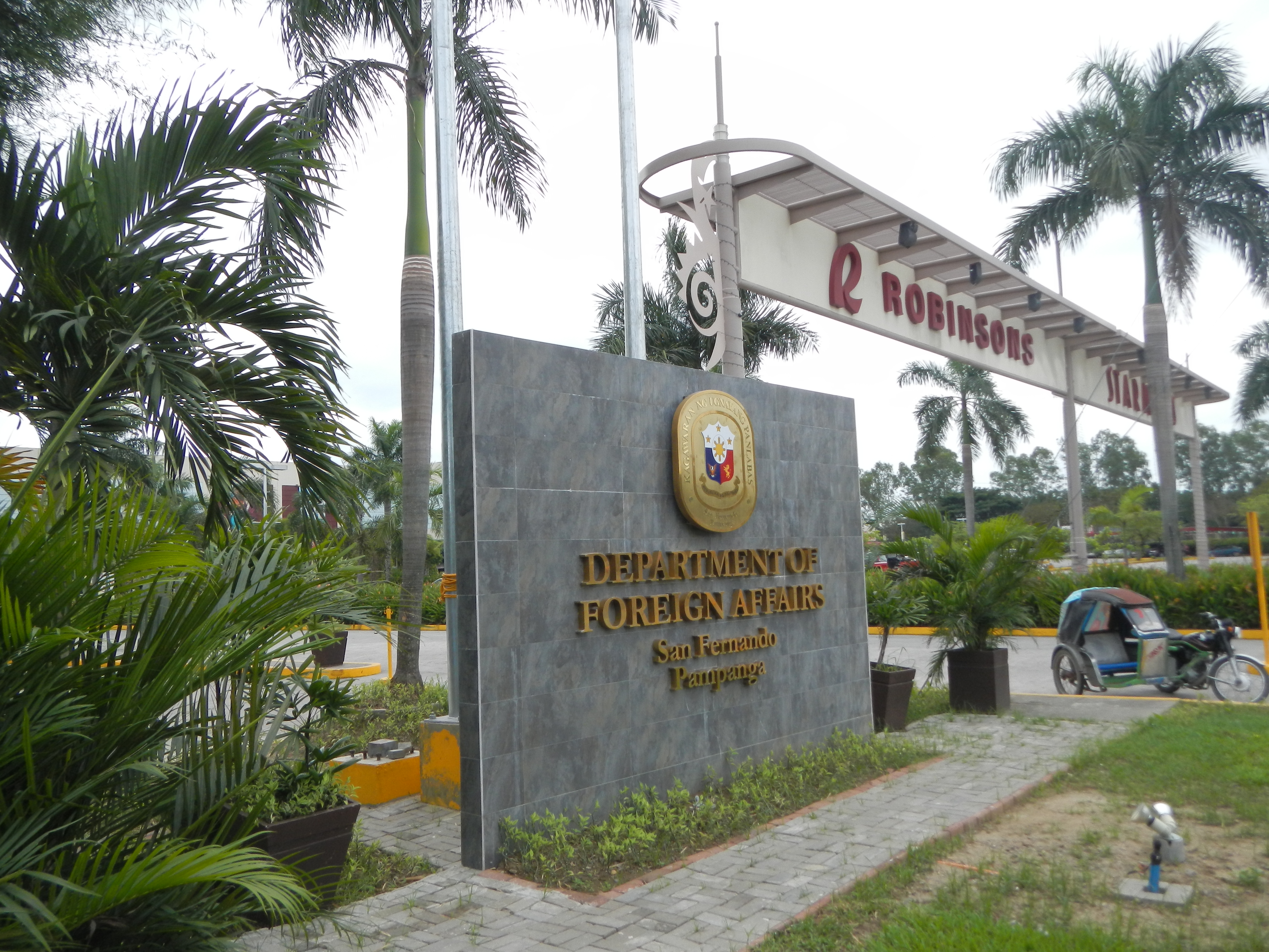 DFA in Robinsons Star Mills Pampanga[1]